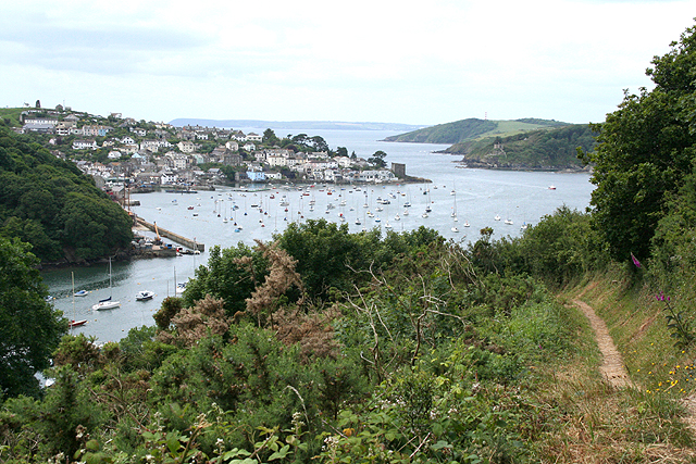 Lanteglos: footpath from Pont Quay 1 The public path between Pont Quay and Bodinnick with a view to Polruan and the mouth of the Fowey. Dodman Point is the headland on the far horizon, above Polruan, which is south from Mevagissey and Gorran Haven